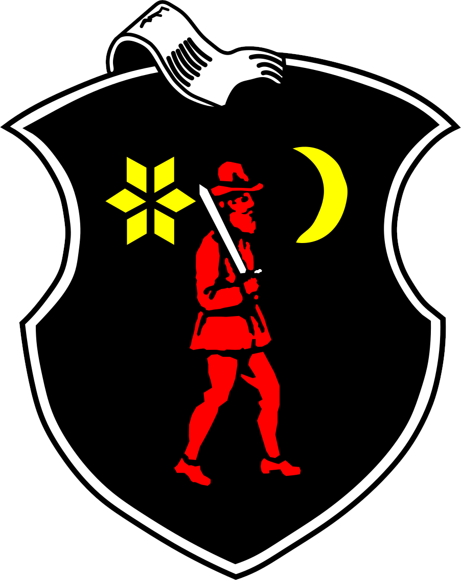 Coat of arms of Rottenmann, Styria, Austria